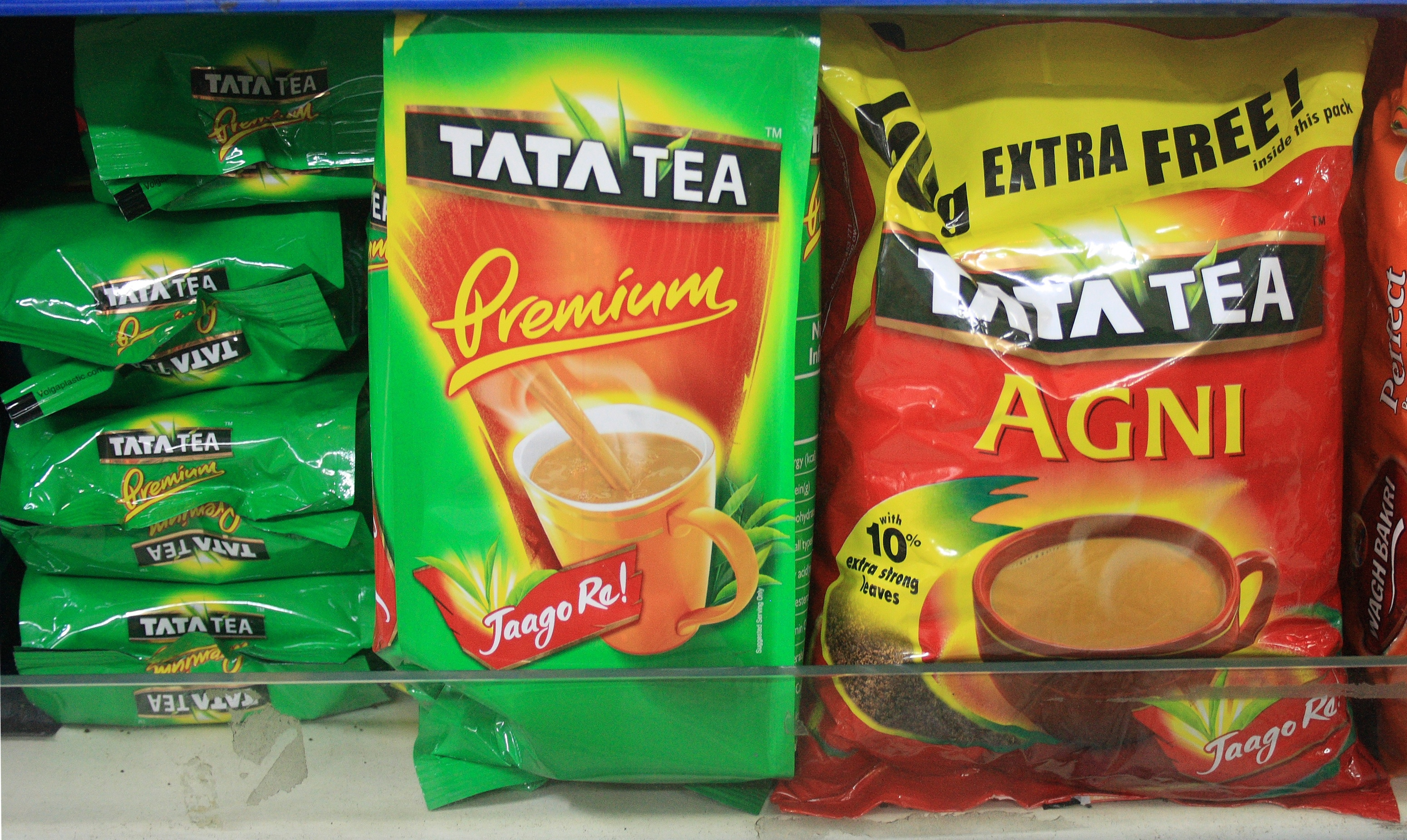 Packages of Tata Tea as seen in the shelf of a store in Mumbai.